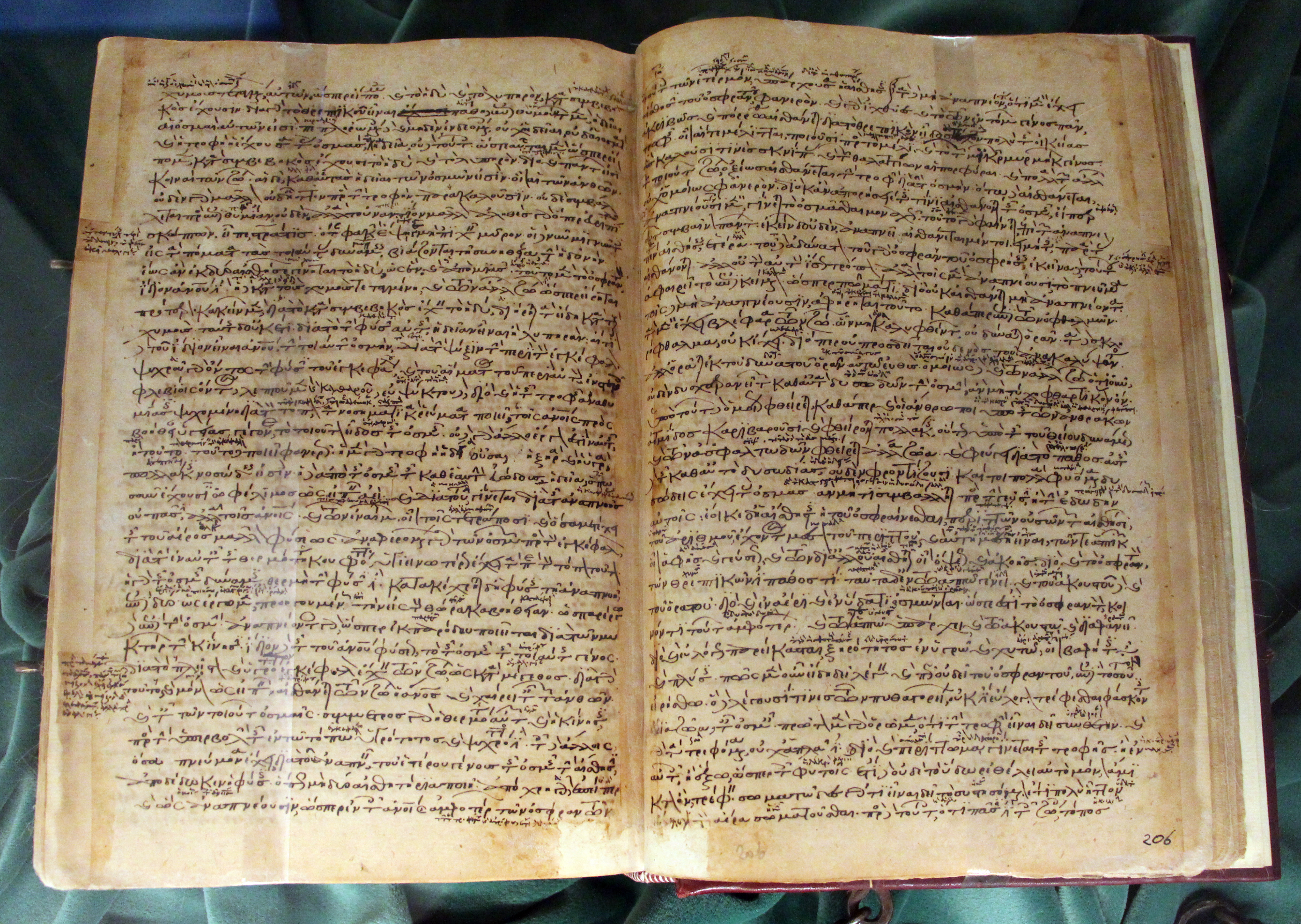 Greek manuscript (Biblioteca Medicea Laurenziana, plut. 87.4, 205v and 206r) Text: from Aristotle, Sense and Sensiblia Transcription: χυμοὺς τεταγμένον αὐτῶν͵ ὥσπερ εἴπομεν͵ καὶ τὸ ἡδὺ καὶ τὸ λυπηρὸν κατὰ συμβεβη- κὸς ἔχουσιν διὰ γὰρ τὸ τοῦ θρεπτικοῦ πάθη εἶναι͵ ἐπιθυμούντων μὲν ἡδεῖαι αἱ ὀσμαὶ τούτων εἰσί͵ πεπληρωμένοις δὲ καὶ μηδὲν δεομένοις οὐχ ἡδεῖαι͵ οὐδ΄ ὅσοις μὴ [...]